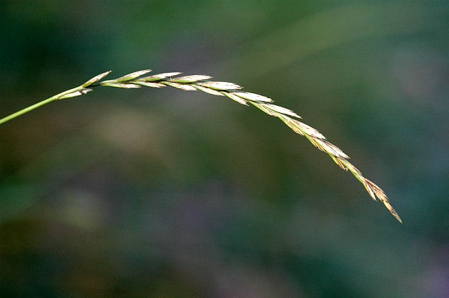 Picture taken in Commanster, Belgian High Ardennes . Species: Elymus repens